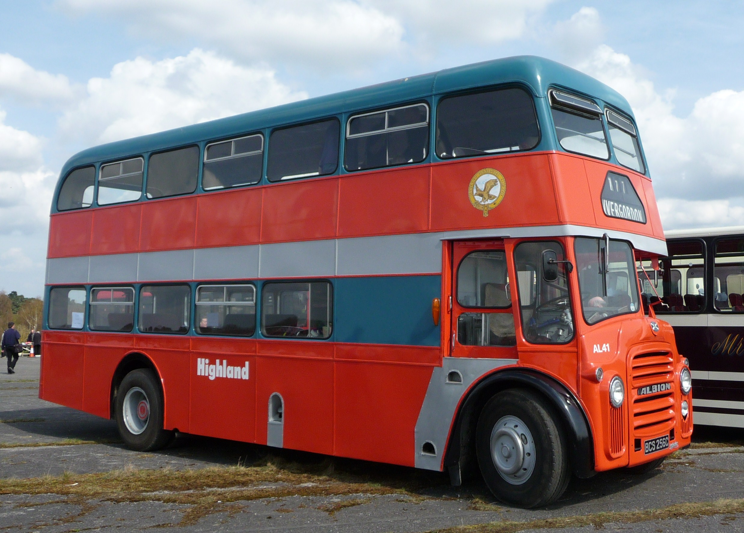 Preserved Highland AL41 (BCS 256C), an Albion Lowlander/Northern Counties, at the 2009 Cobham bus rally at Wisley Airfield.